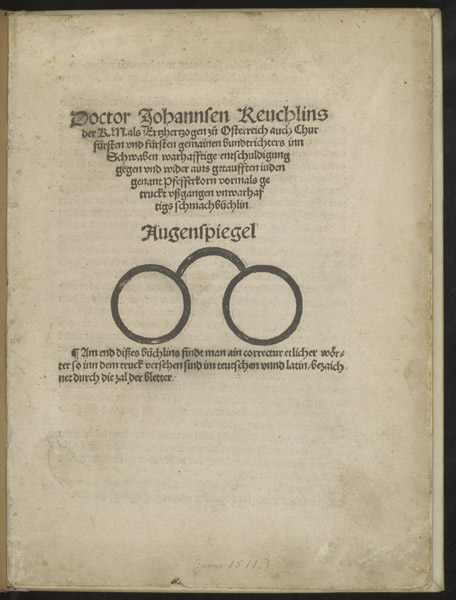 The "Augenspiegel" is the famous defense of the Christian humanist scholar Johannes Reuchlin against the attacks of the anti-Jewish agitator Johannes Pfefferkorn, a convert from Judaism.